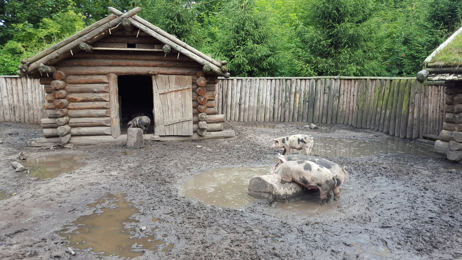 Pigsty in the reconstructed Middle Ages village in Biskupin, Poland